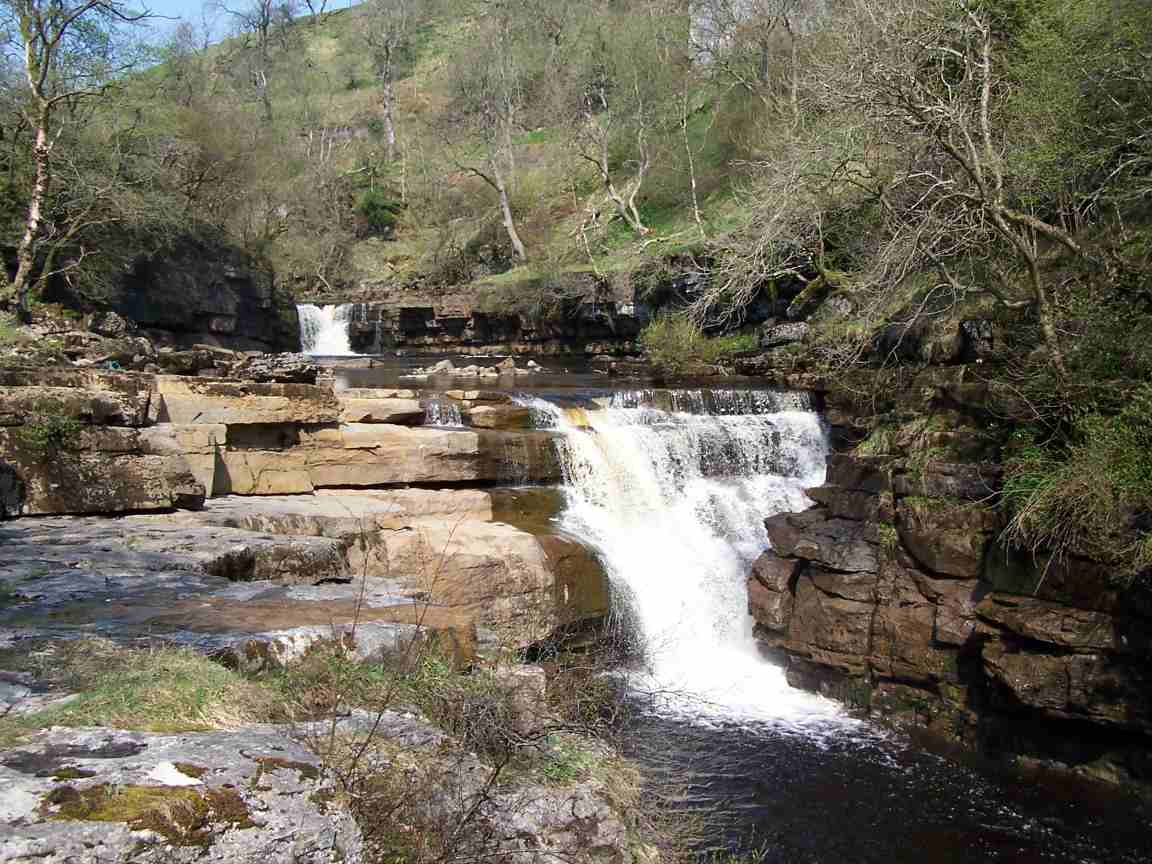 Kisdon Force in Swaledale, England Summary Personal photograph by Mick Knapton taken on May 8th 2006